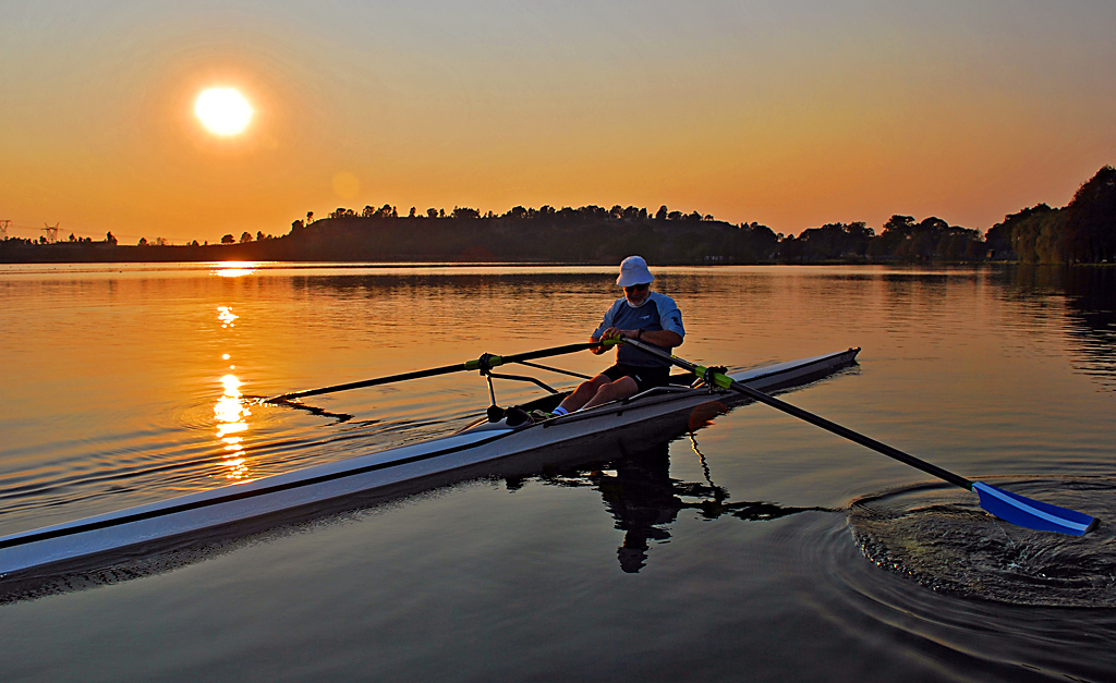 Dawn sculler at Wemmer Pan, South Africa (photo by Charley Lewis).